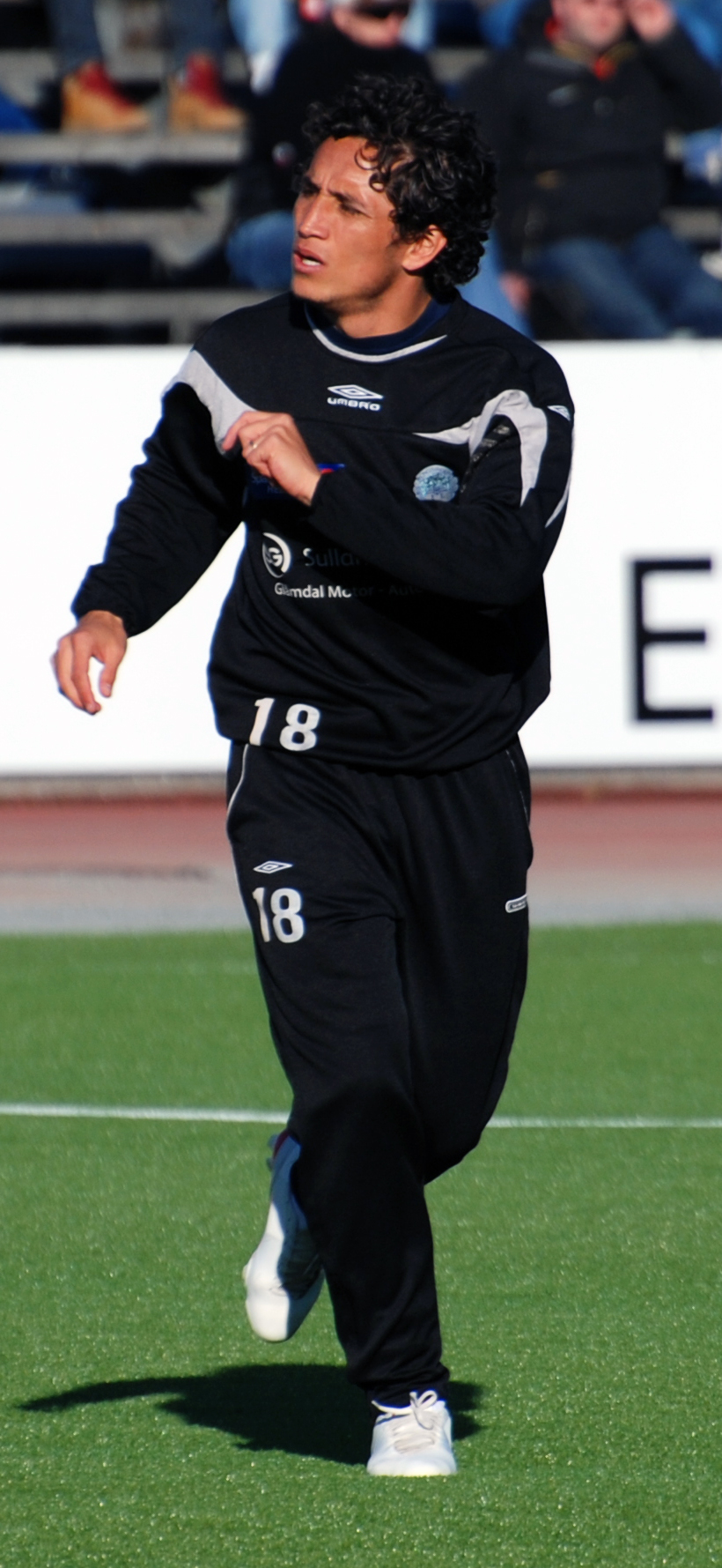 Randall Brenes, Kongsvinger - HamKam, Gjemselund in Kongsvinger, Hedmark, Norway.